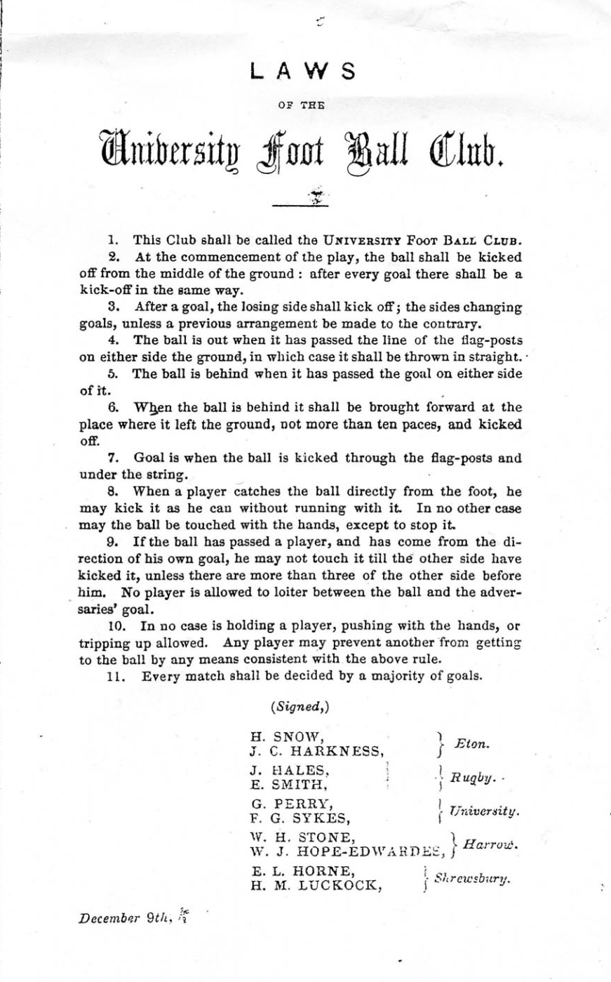 Copy of the Cambridge rules of 1856, from the library of Shrewsbury School.